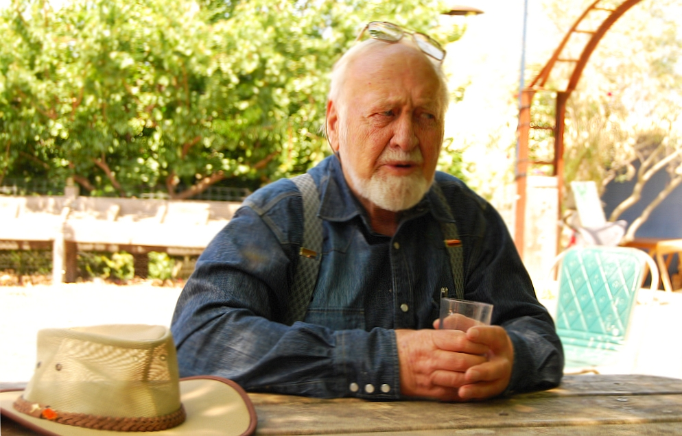 Bill Mollison talking about the future.